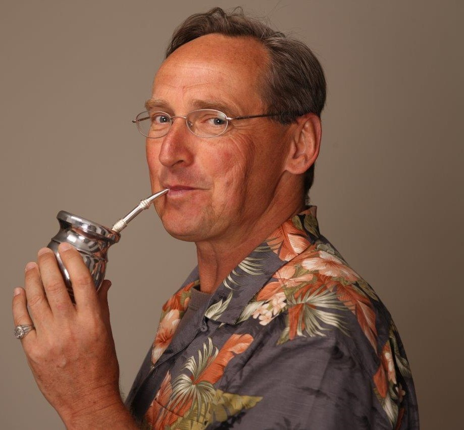 Wojciech Cejrowski - selfie